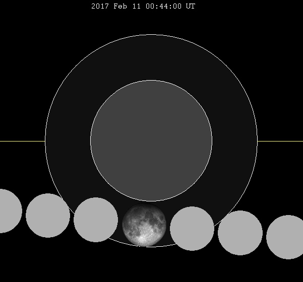 February 2017 lunar eclipse chart of moon's path through the earth's shadow. thumb